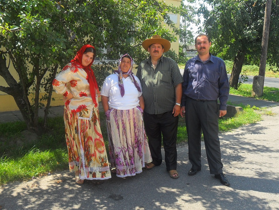 Gabor-gypsies (originated from Transylvania, Romania)